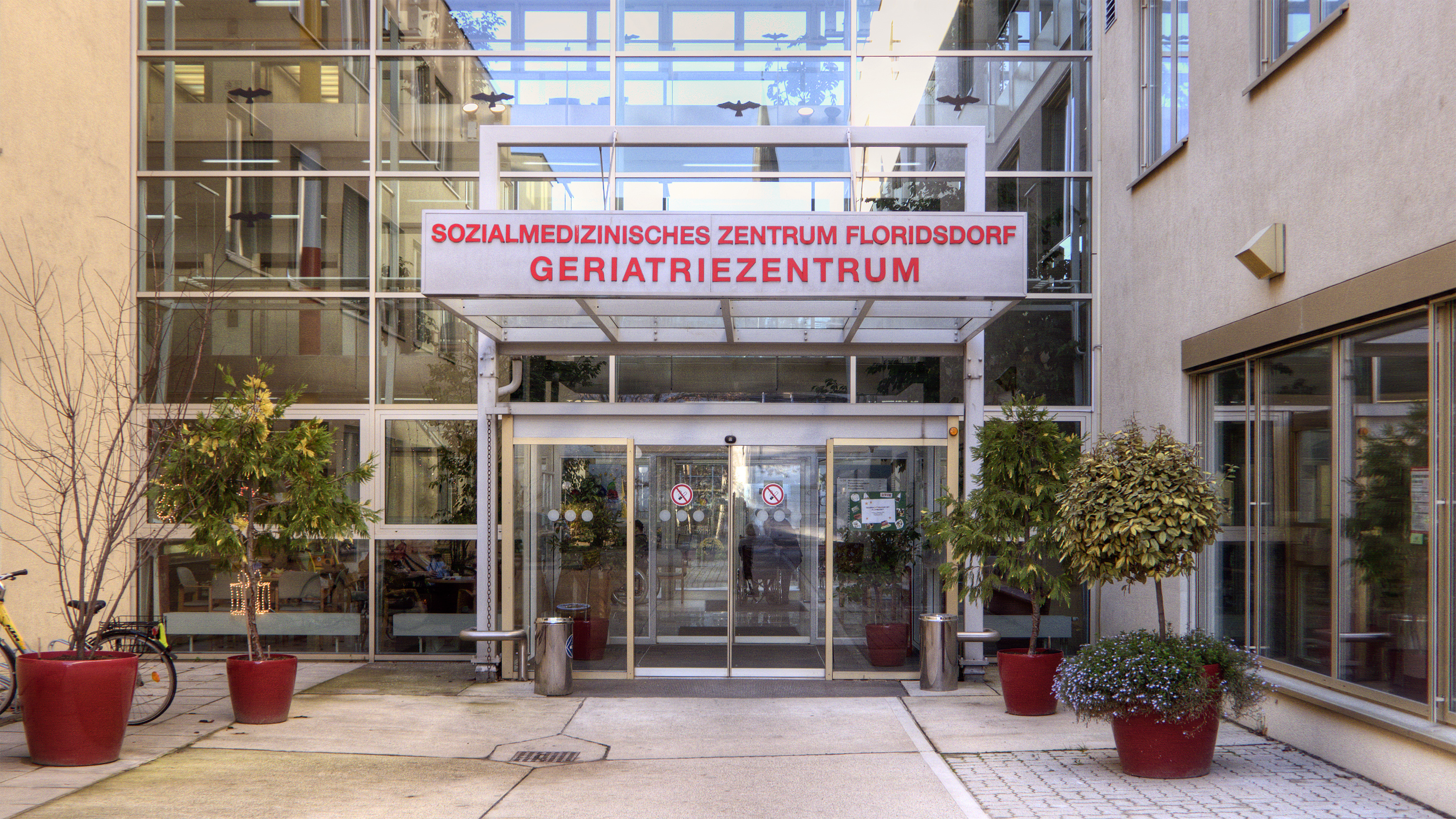 Sozialmedizinisches Zentrum in Vienna Floridsdorf